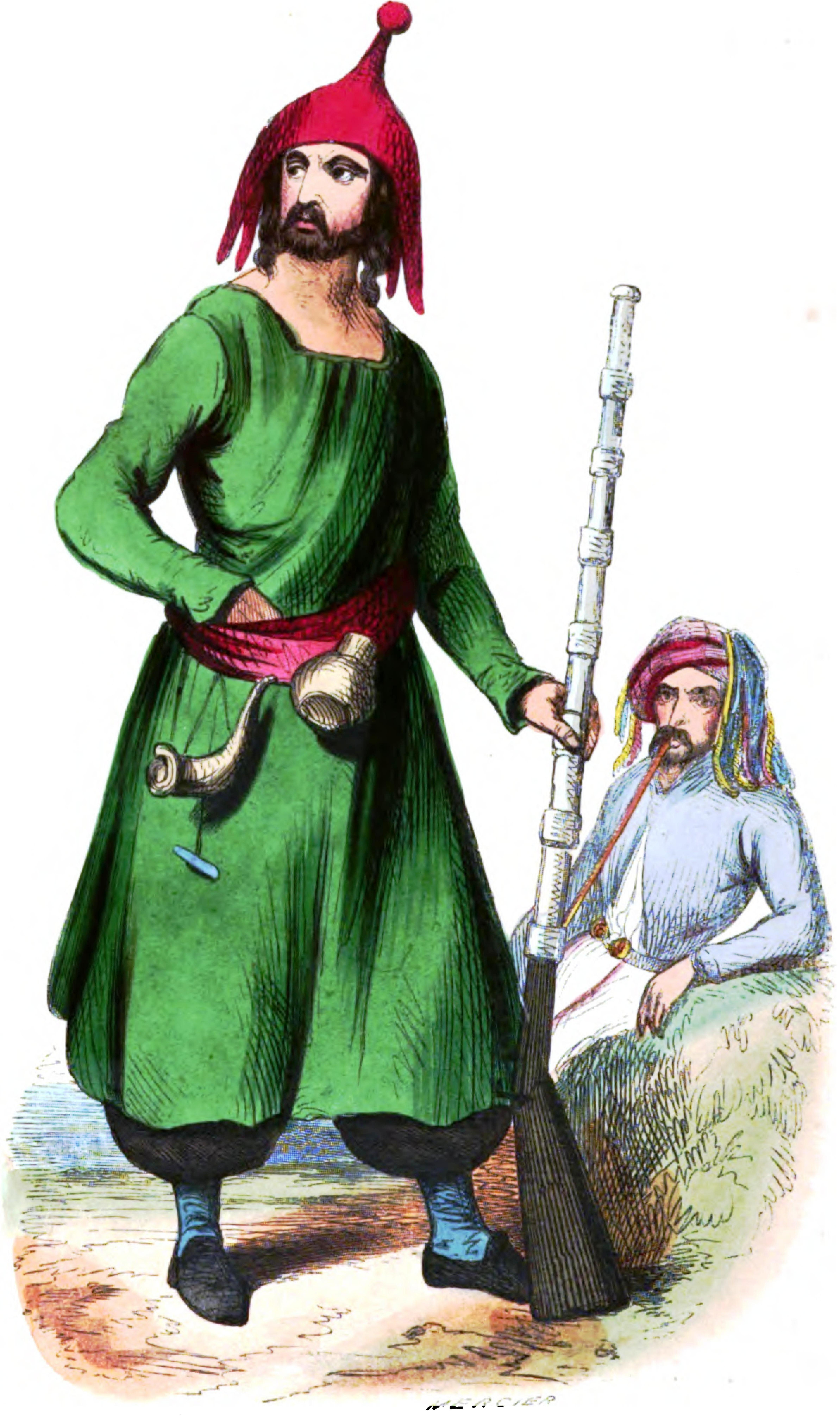 Auguste Wahlen, Moeurs, usages et costumes de tous les peuples du monde, Volume 1. Publisher La Librairie historique-artistique, 1843 Kurdî: Etarekî kurd bi xêzkirina wênesaz Auguste Wahlen (1843)